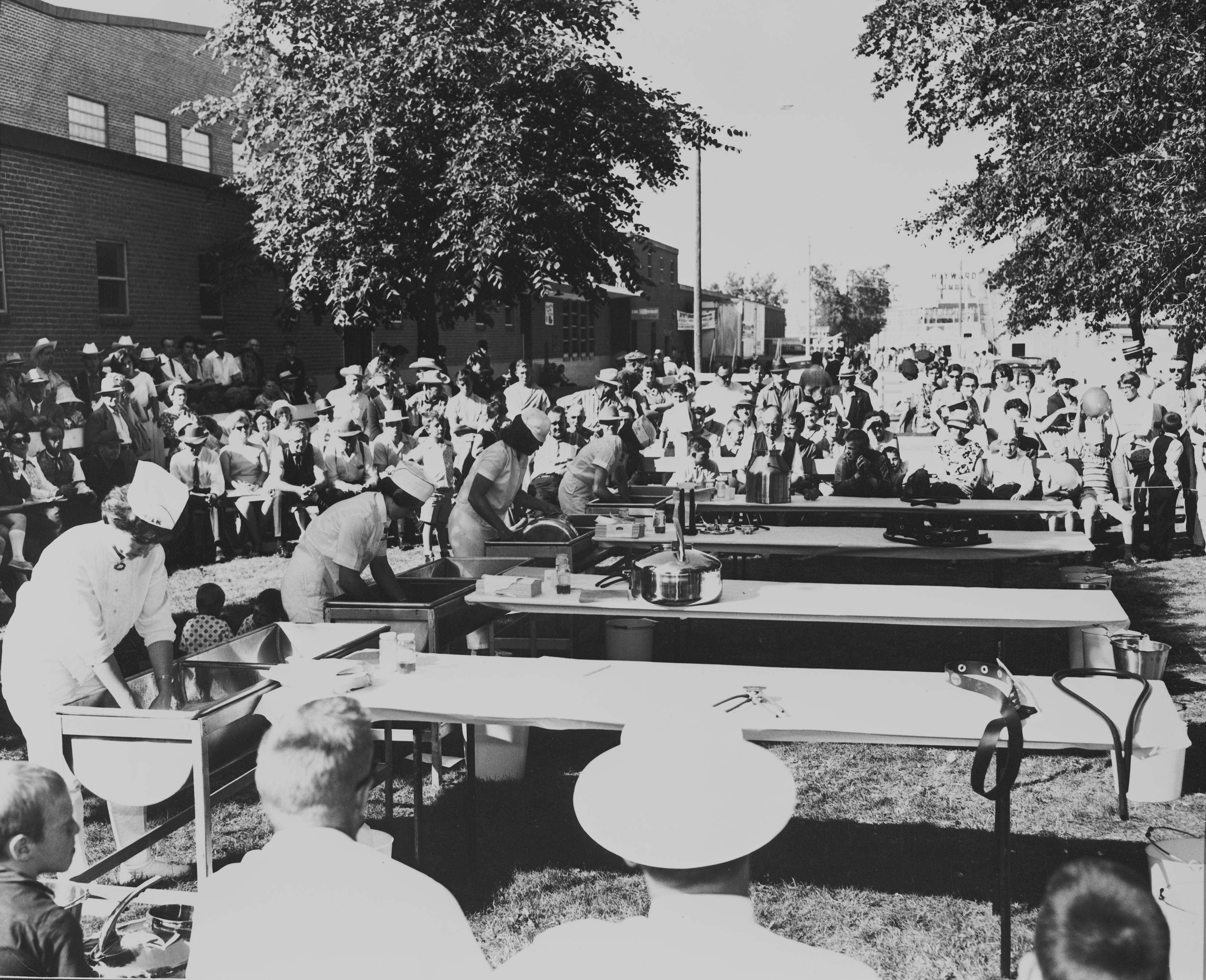 Provincial Archives of Alberta, A16670.